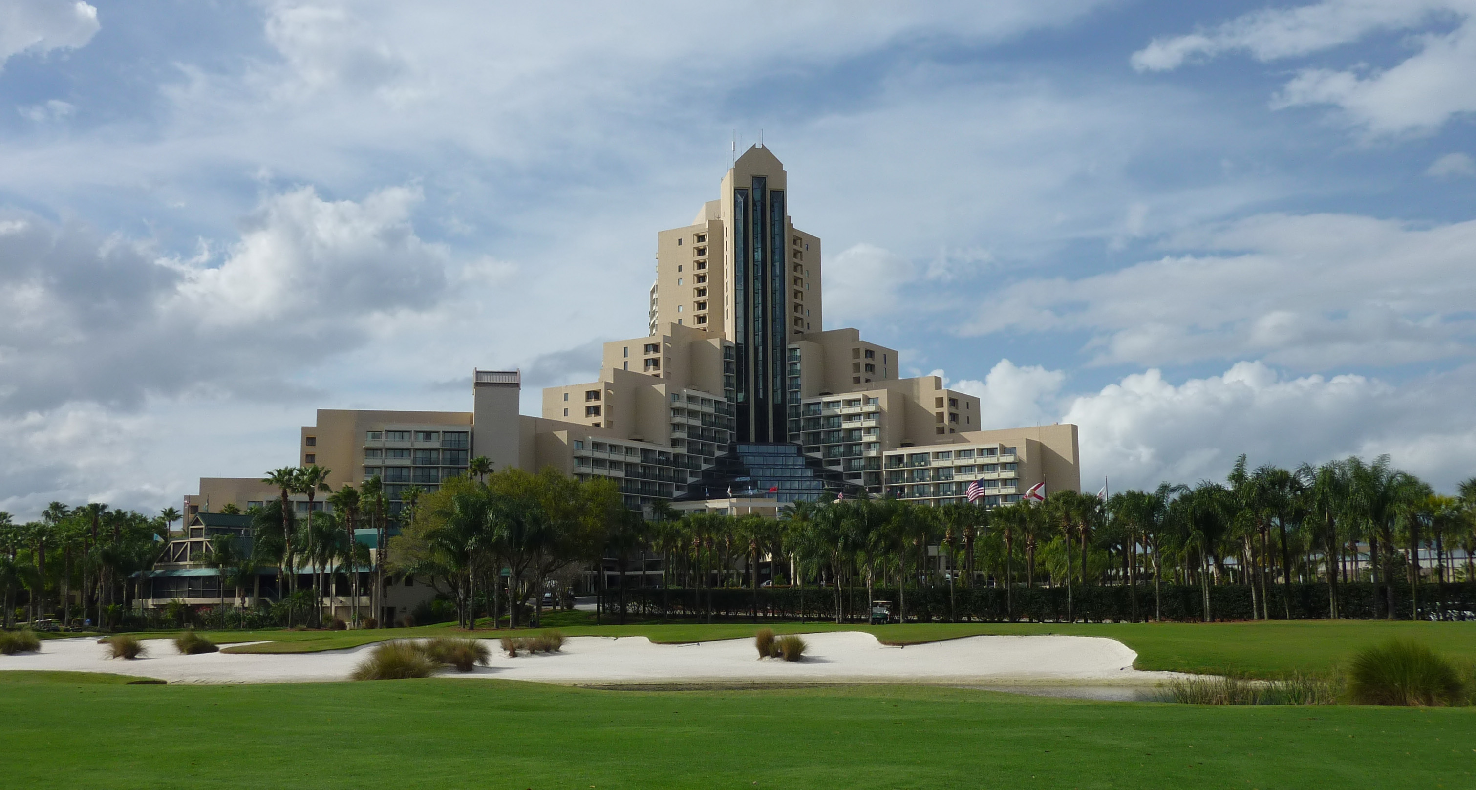 The Orlando World Center Marriott Hotel on the Hawk's Landing Golf Club, Orlando, Florida